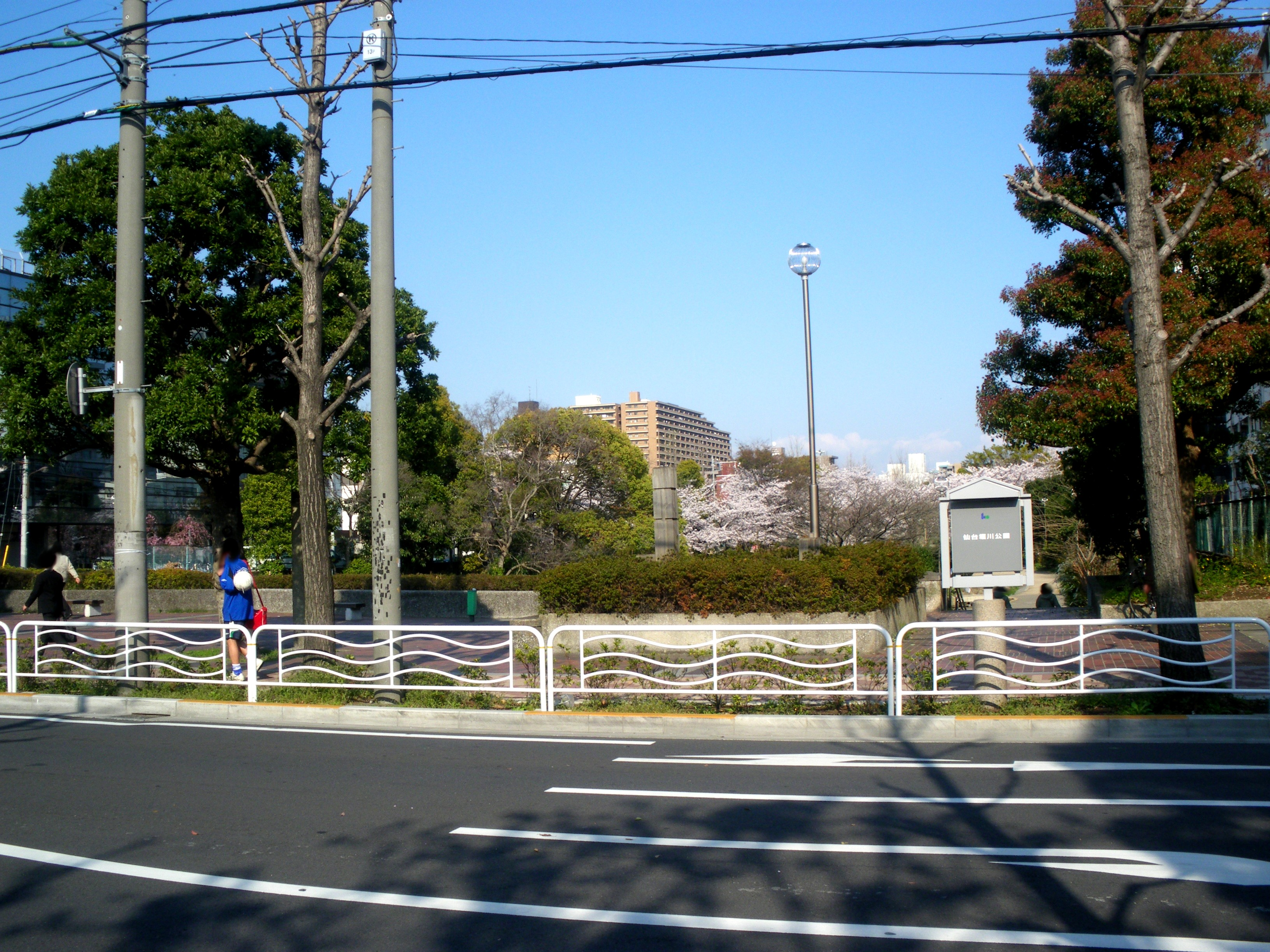 A photo of an entrance of Sendaiborigawa Park,Koto-ku,Tokyo,Japan.